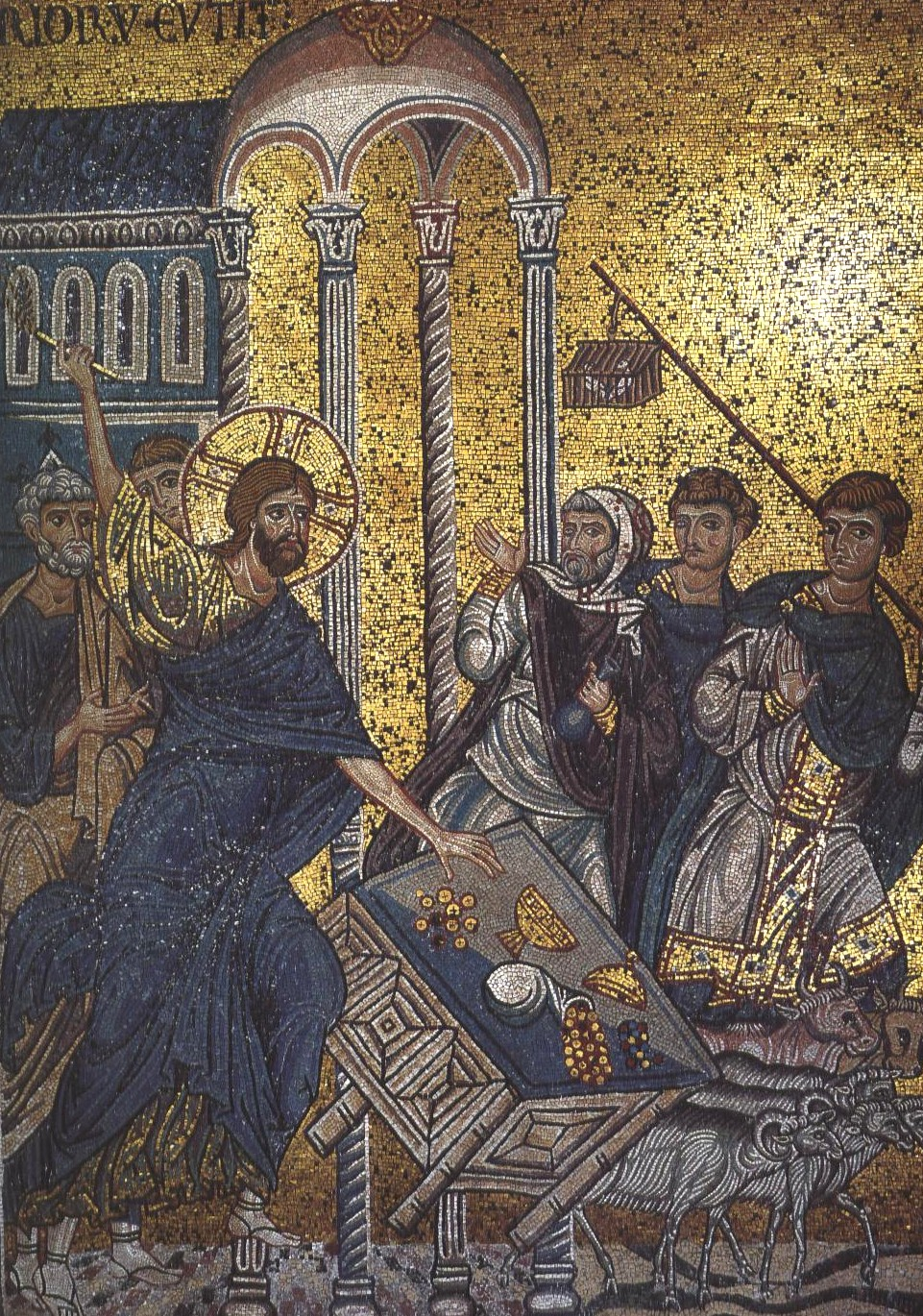 Christ banishes tradesmen from Temple - mosaic in Monreale Cathedral